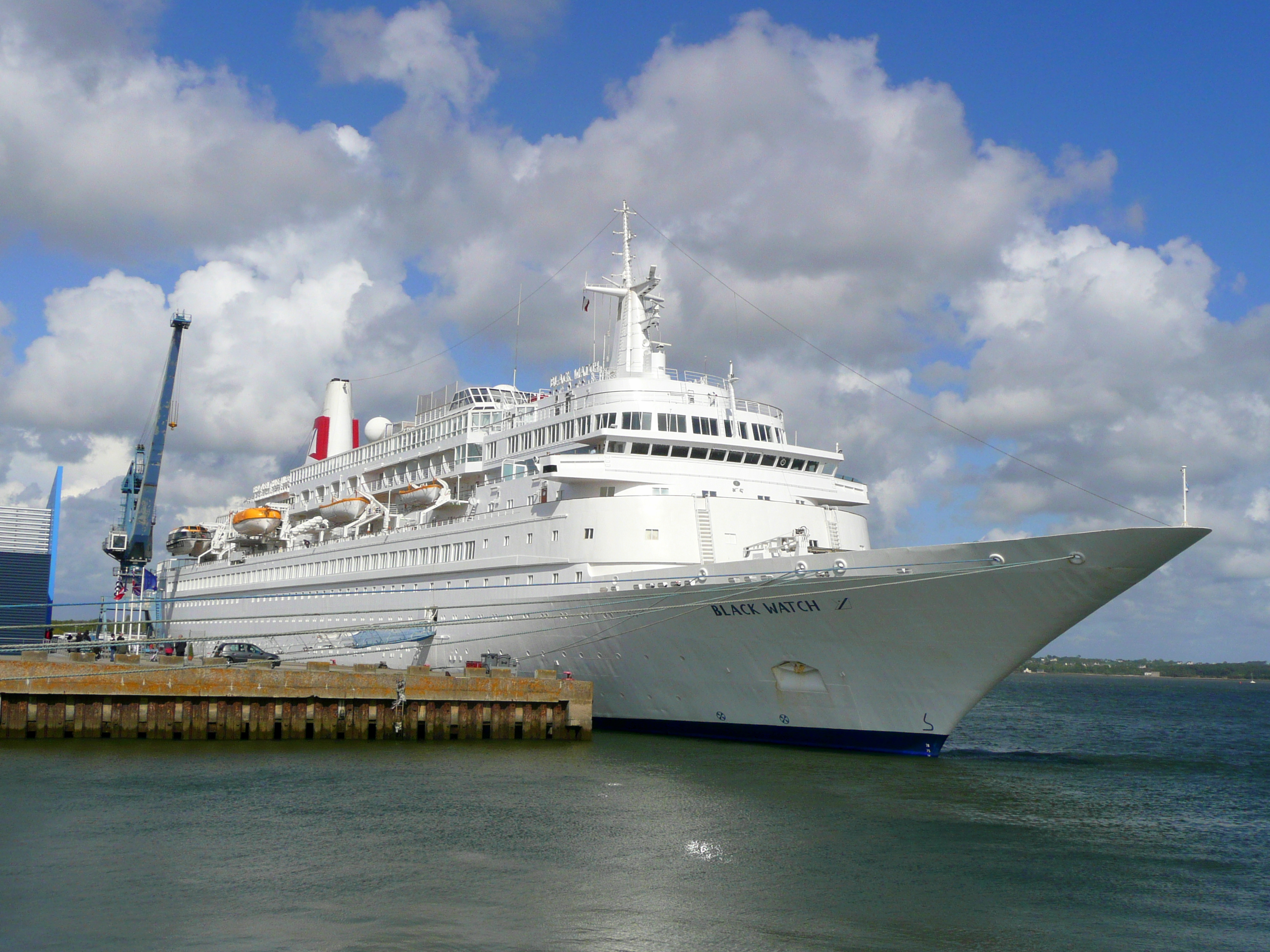 The cruise ship Black Watch at Lorient (France). She was built in 1972 by Wärtsilä Helsinki New Shipyard, Finland. She is 205 meters long and her tonnage is 28500 t. She can accommodate 800 passengers.